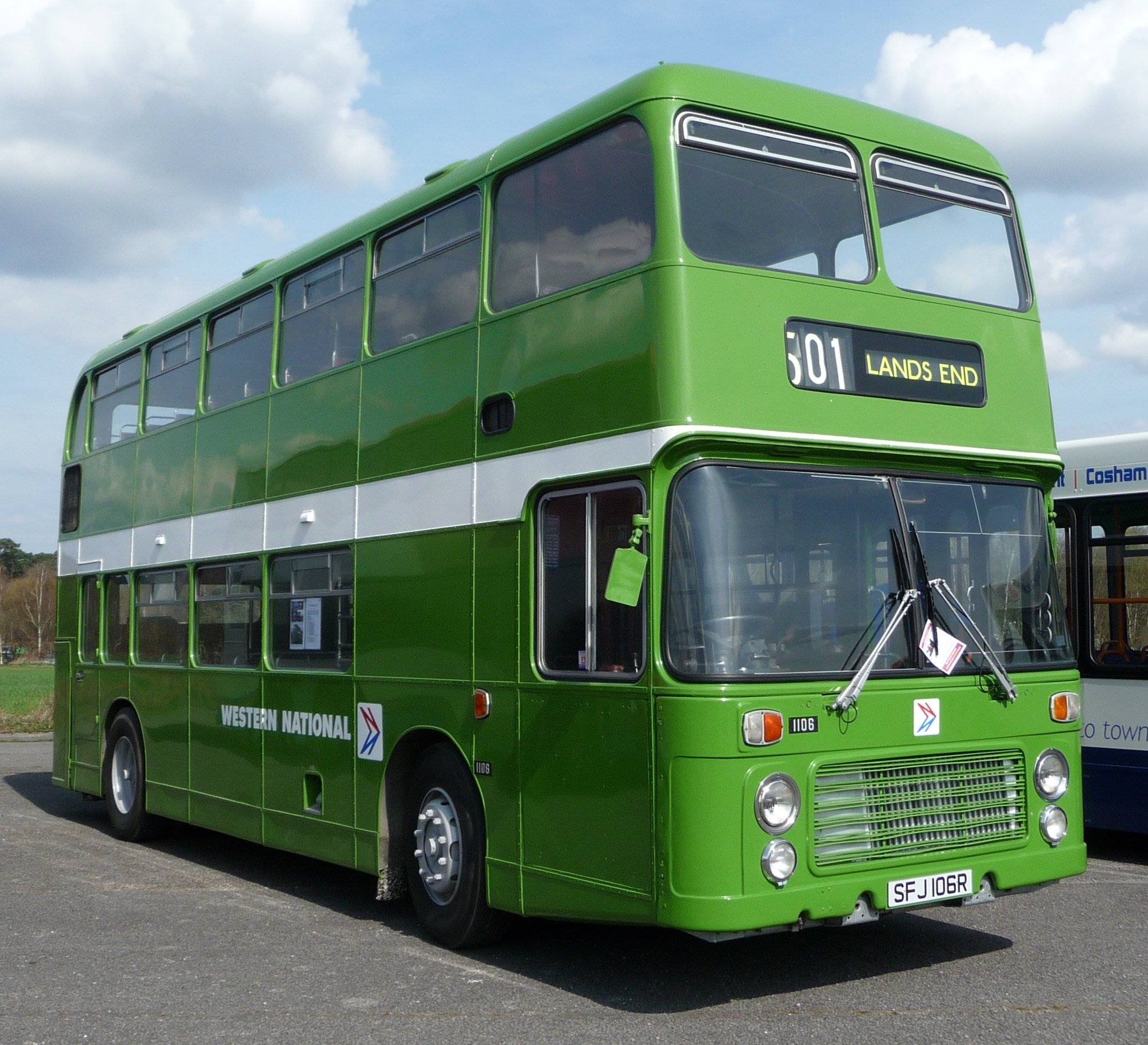 Preserved Western National's 1106 (SFJ 106R), a Bristol VR/ECW, at the 2009 Cobham bus rally at Wisley Airfield.